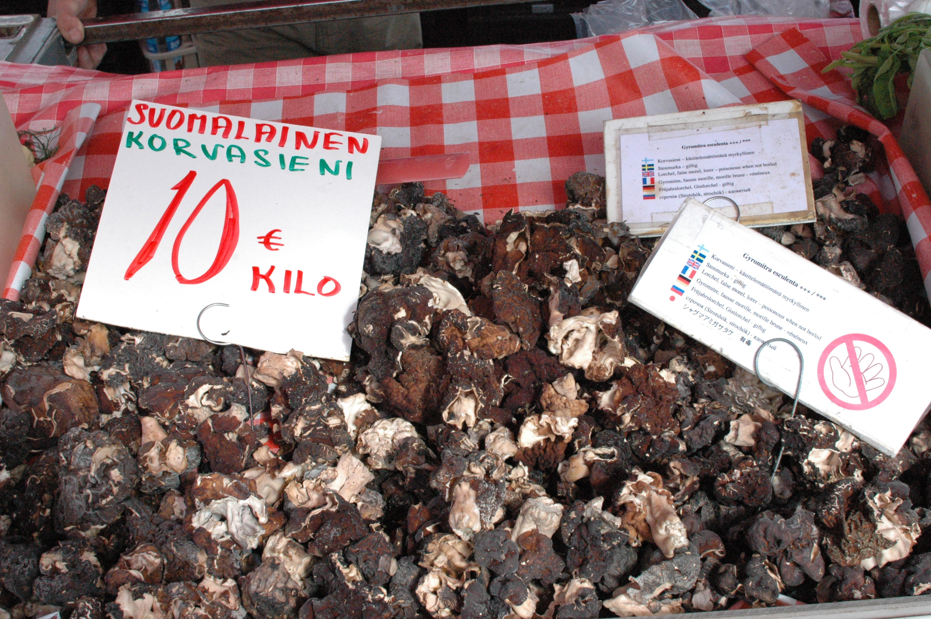 False morel fungi (Gyromitra esculenta) for sale at the Helsinki market square. Though deadly poisonous unless properly parboiled, these mushrooms are considered a local delicacy, and Finnish law permits their sale fresh as long they are accompanied by conspicuous warnings and government-approved preparation instructions.